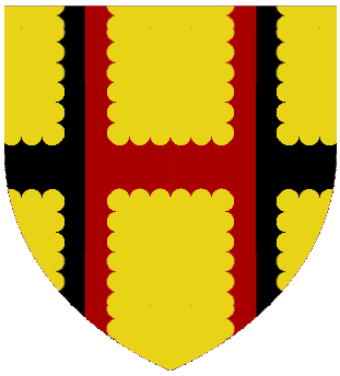 The shield of arms of The Lord Brooke of Sutton Mandevillr